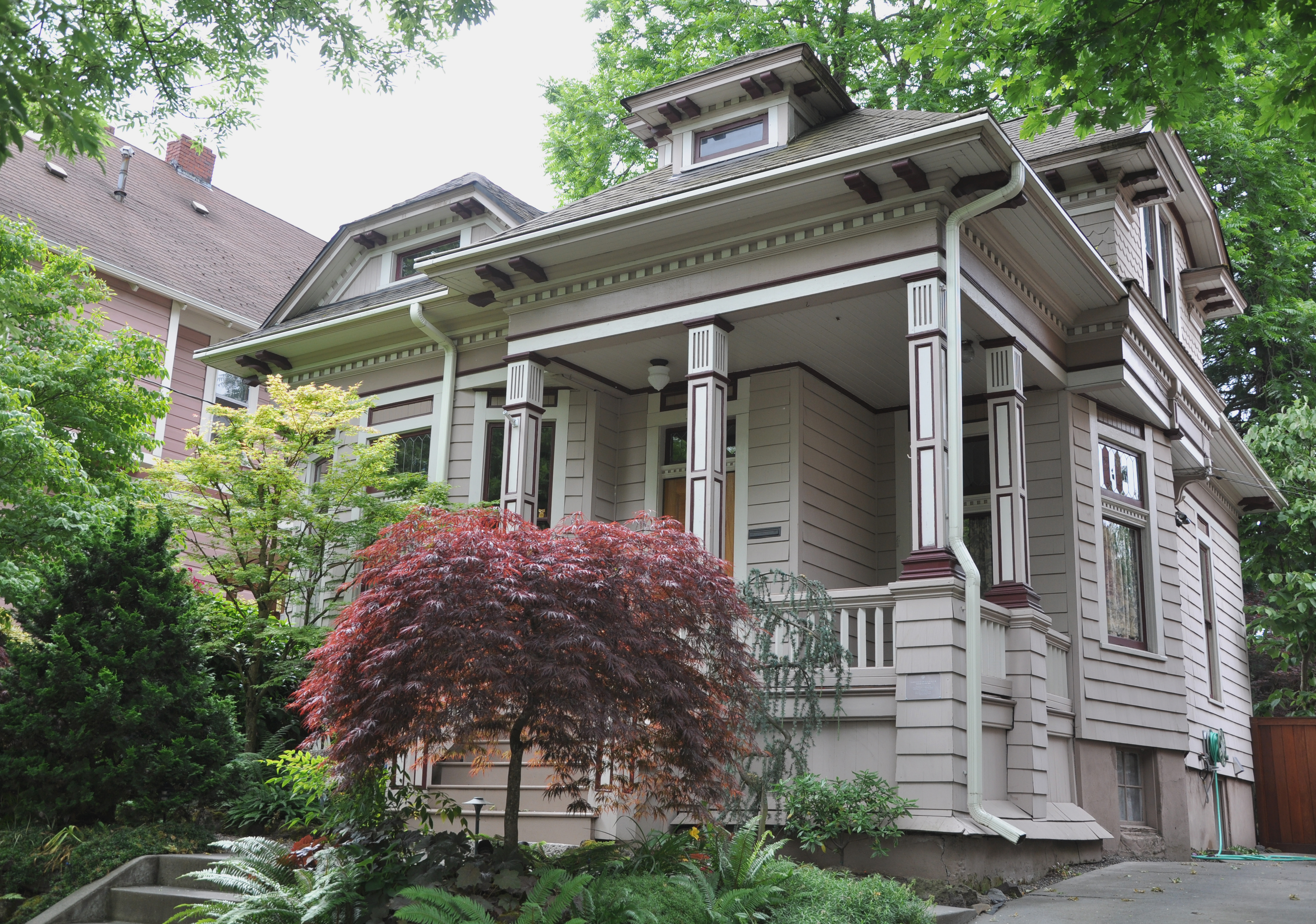 Clarence H. Jones House in Portland in the U.S. state of Oregon. The structure is listed on the National Register of Historic Places.